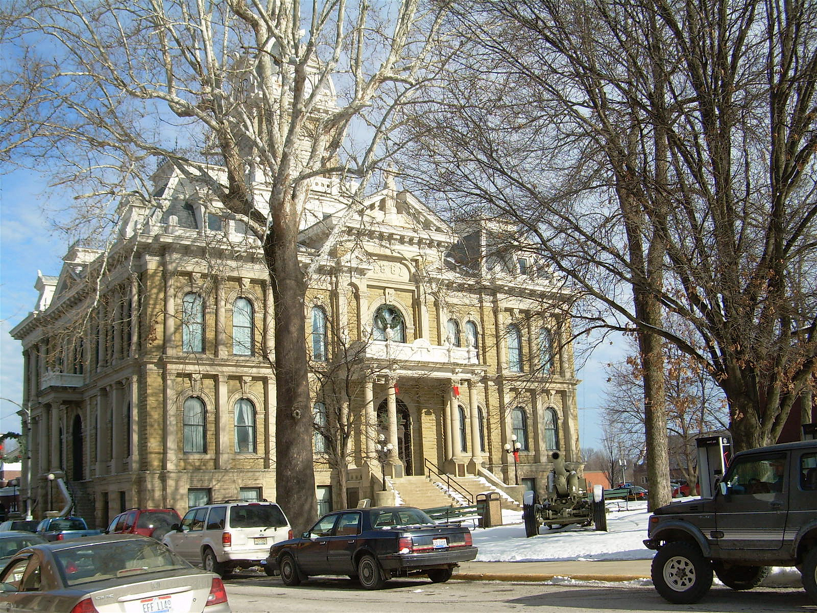 Willjay, taken by me. Guernsey County Courthouse, Cambridge, Ohio. 2008